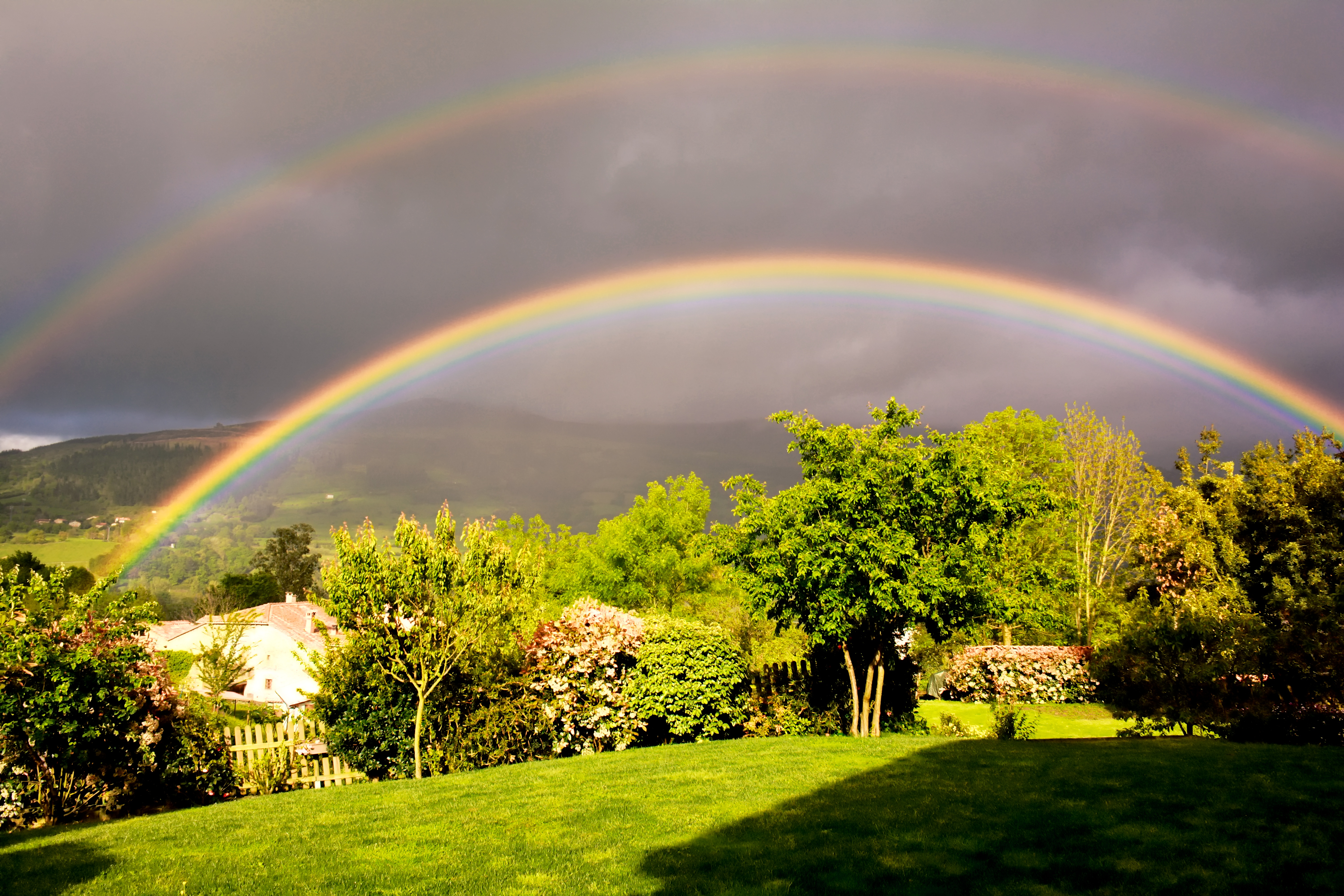 A double rainbow fotografed in Vega de Pas (Cantabria, Spain) on April 27, 2013.